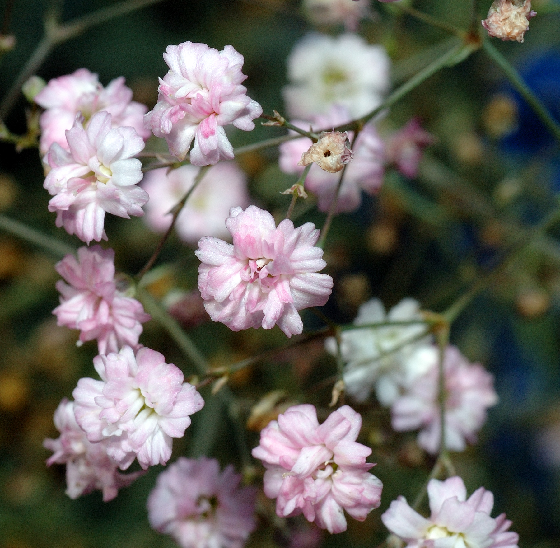 This image shows the Creeping baby's breath (Gypsophila repens). It has been taken at the island Mainau.